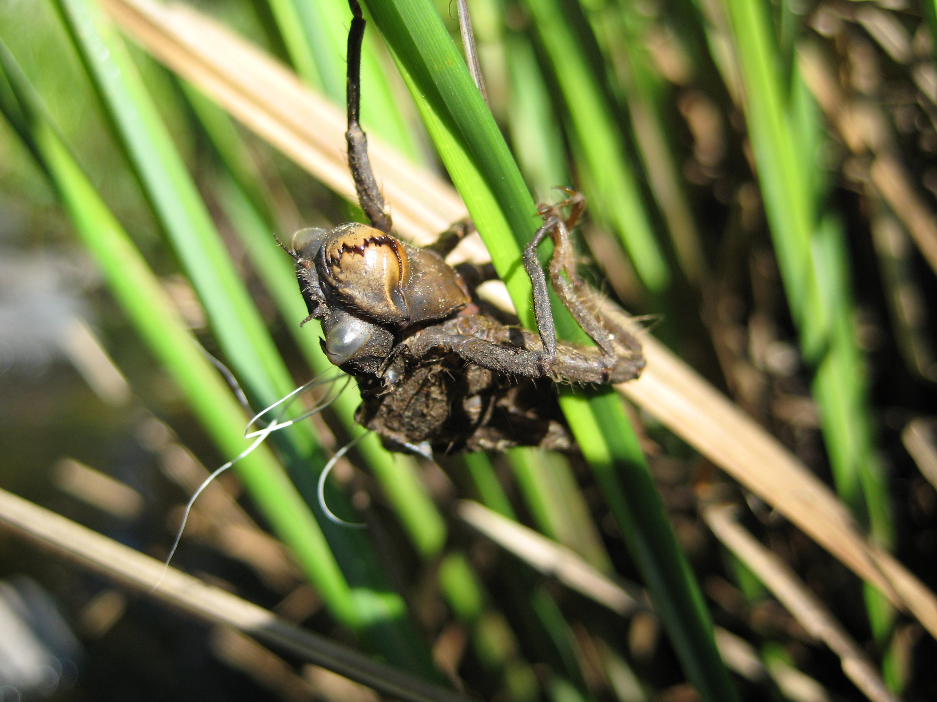 A photo of a dragonfly. The stage before it turns into a dragonfly.